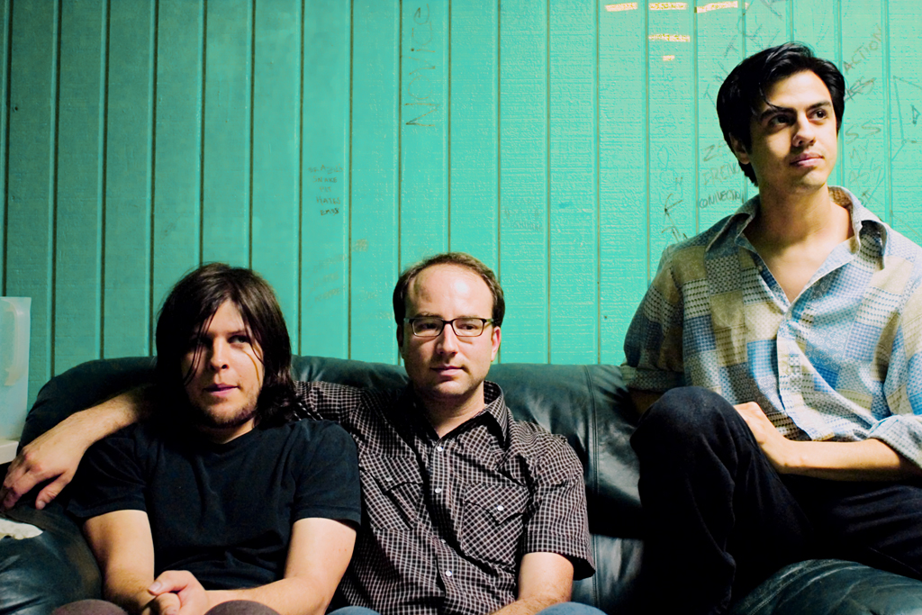 Picture of rock band The Black